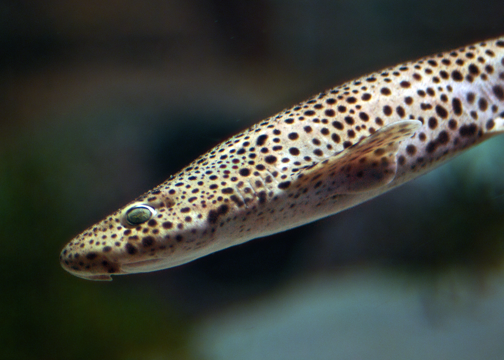 Nursehound (Scyliorhinus stellaris) in a public aquarium